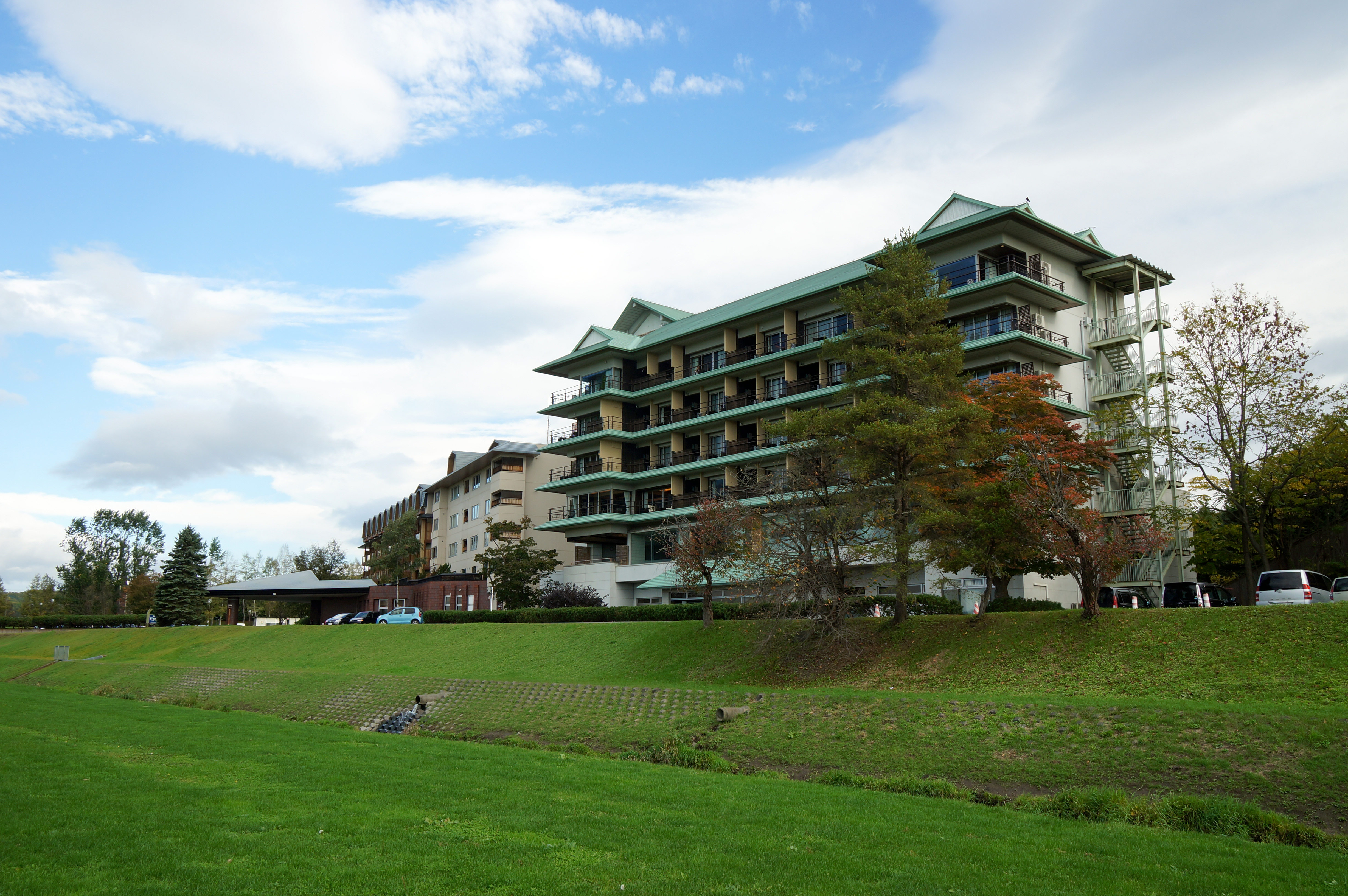 At Tokachigawa Onsen in Otofuke, Hokkaido prefecture, Japan.